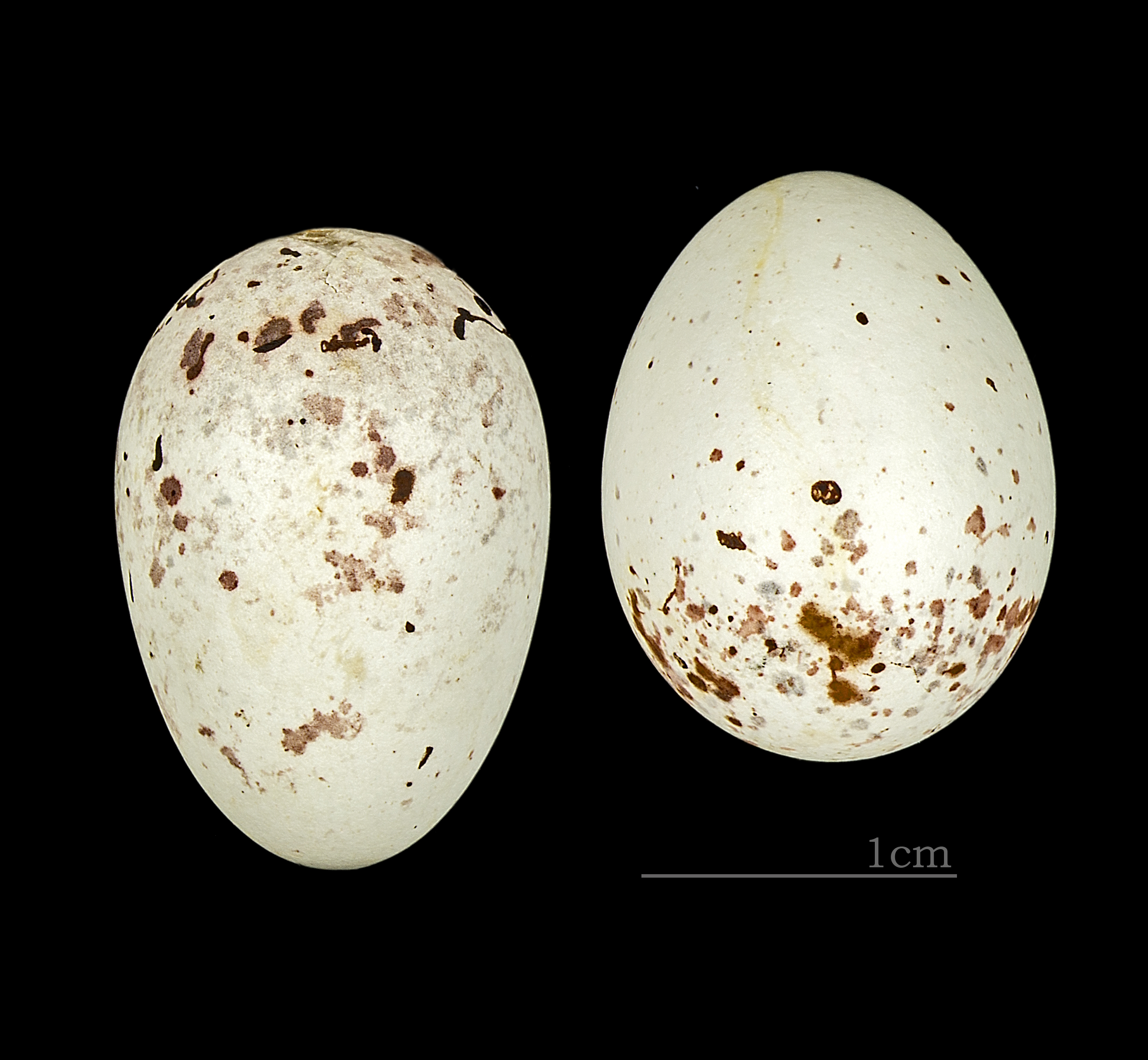 Egg of Grey-capped Greenfinch Collection of Henri Heim de Balsac /Jacques Perrin de Brichambaut.